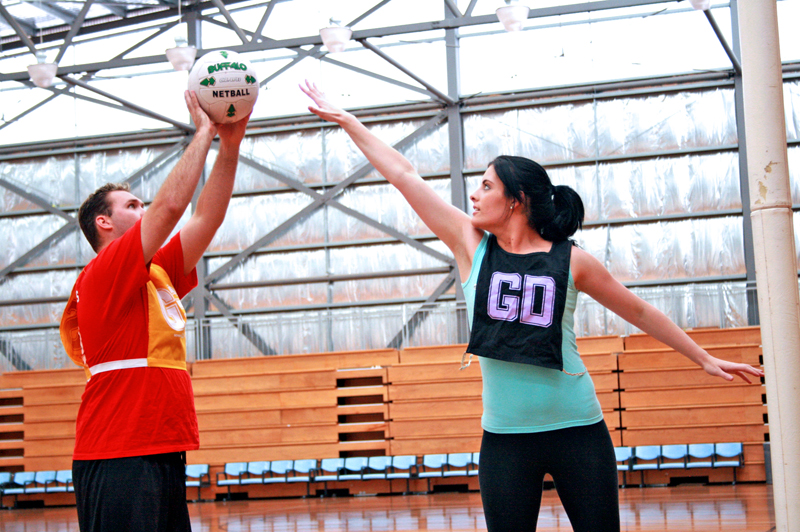 Netball Game in Action - Guarding